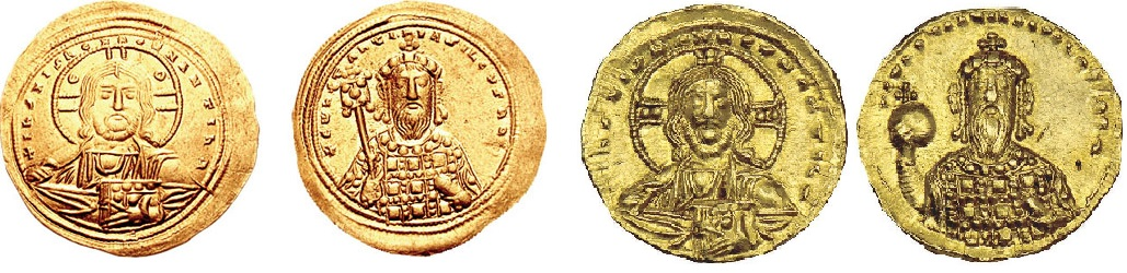 Histamenon & Tetarteron von Konstantin VIII